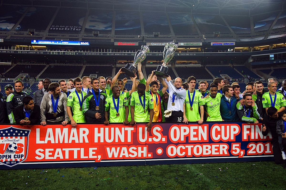 A picture of several Seattle Sounders FC players lifting the 2009 and 2010 Lamar Hunt U.S. Open Cup trophies at Qwest Field in Seattle after winning back-to-back championships defeating the Columbus Crew 2-1 in the 2010 final.